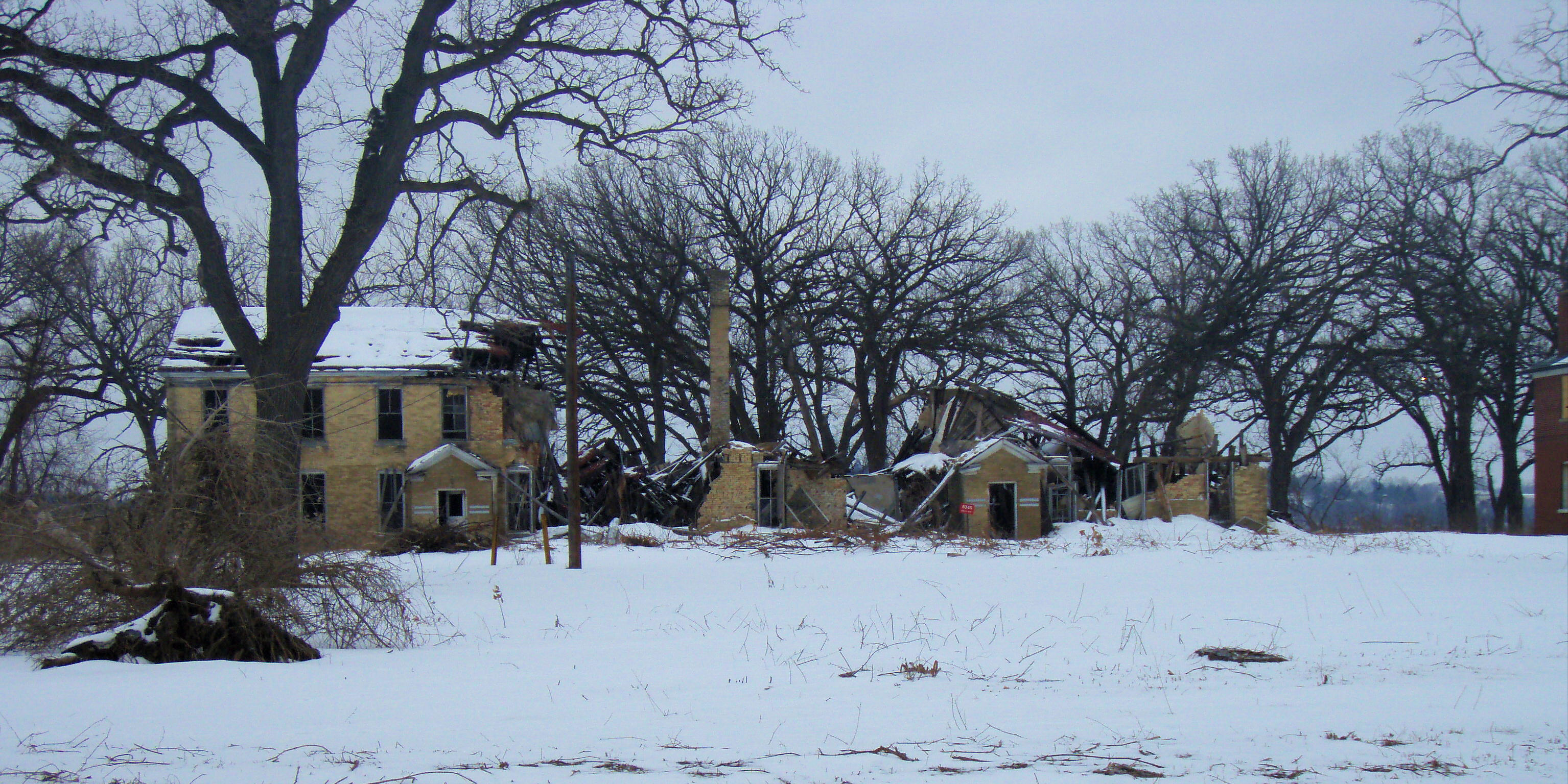 A dilapidated building at Fort Snelling, Minnesota. This building originally served as the quartermaster's shops (building #63) The roof and large sections of the brick walls have collapsed.